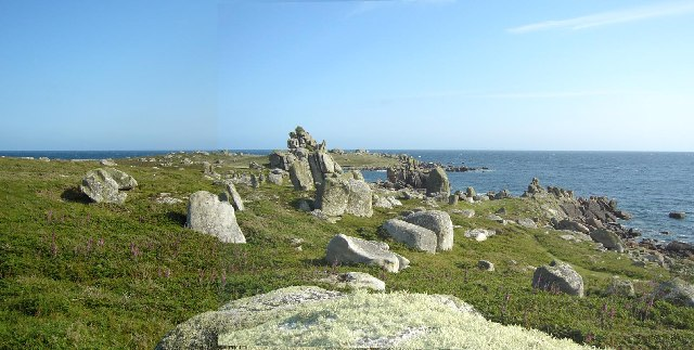 South'ard. The view of Wingletang Downs and Horse Point from the north.